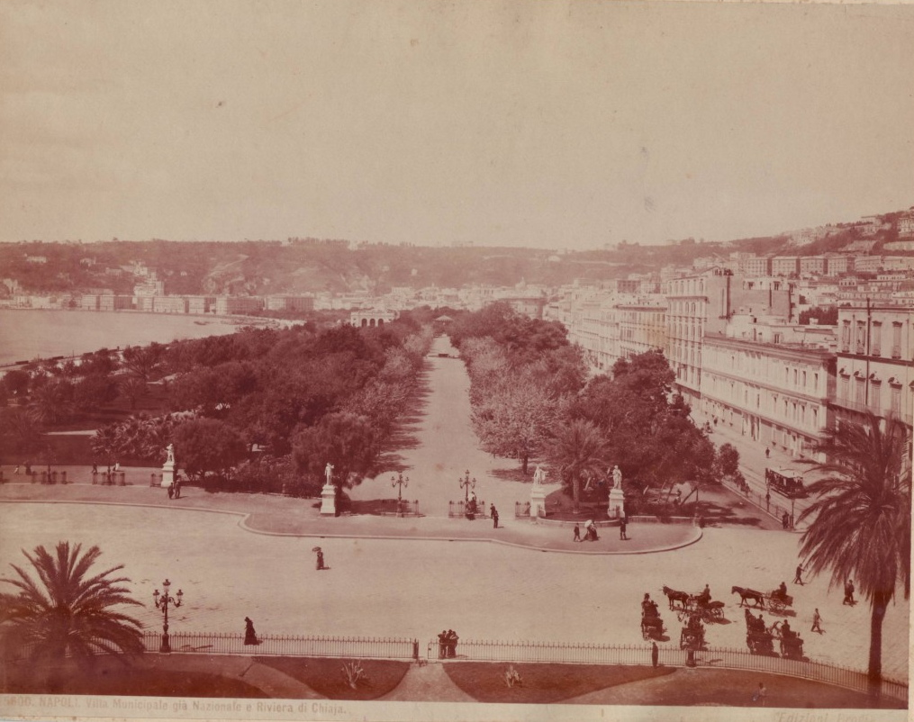 Giacomo Brogi (1822-1881) - "Naples - Public gardens and Riviera di Chiaja". Catalogue # 5600.